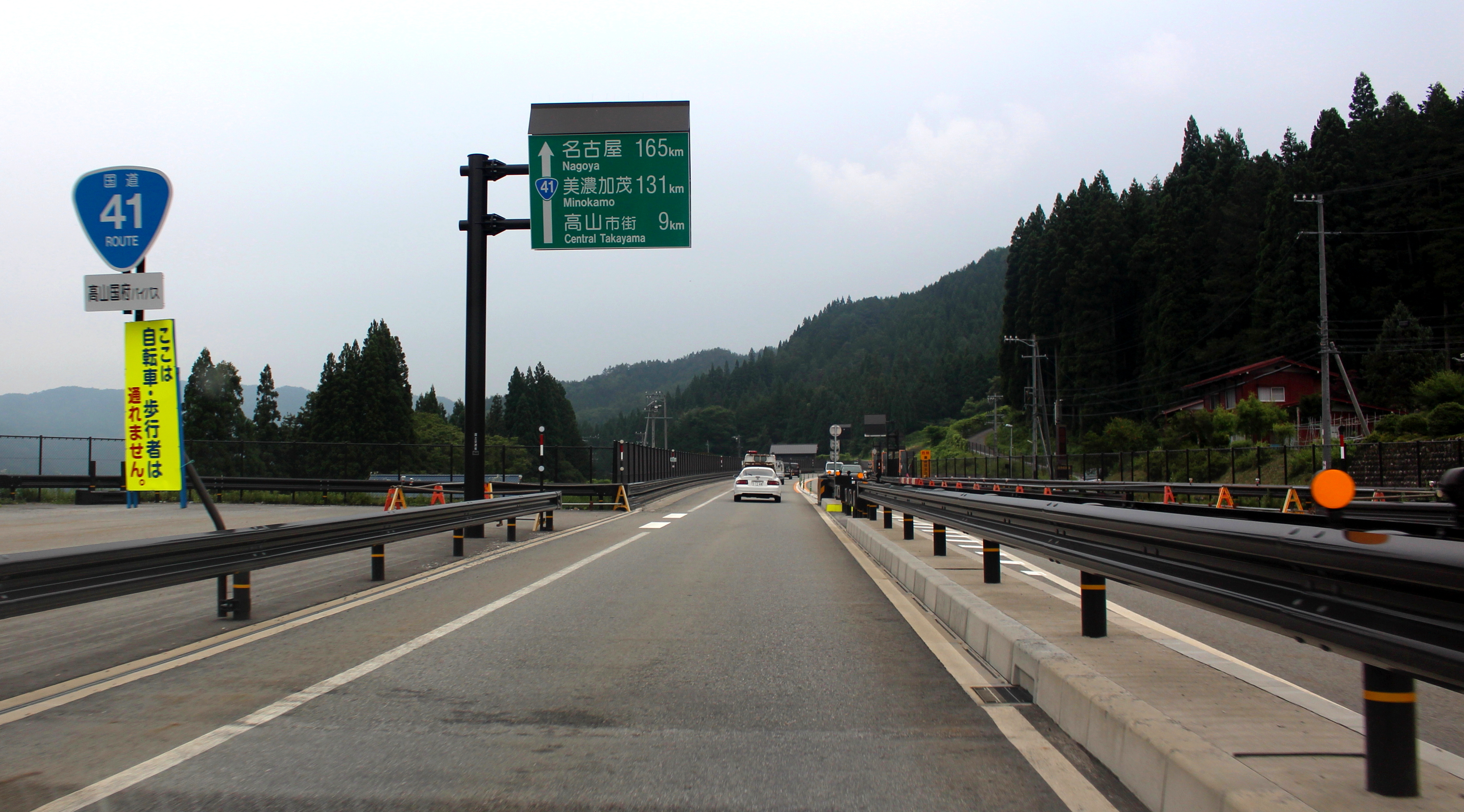 Takayamakokuhu bypass of Route 41, in Takayama, Gifu prefecture, Japan.